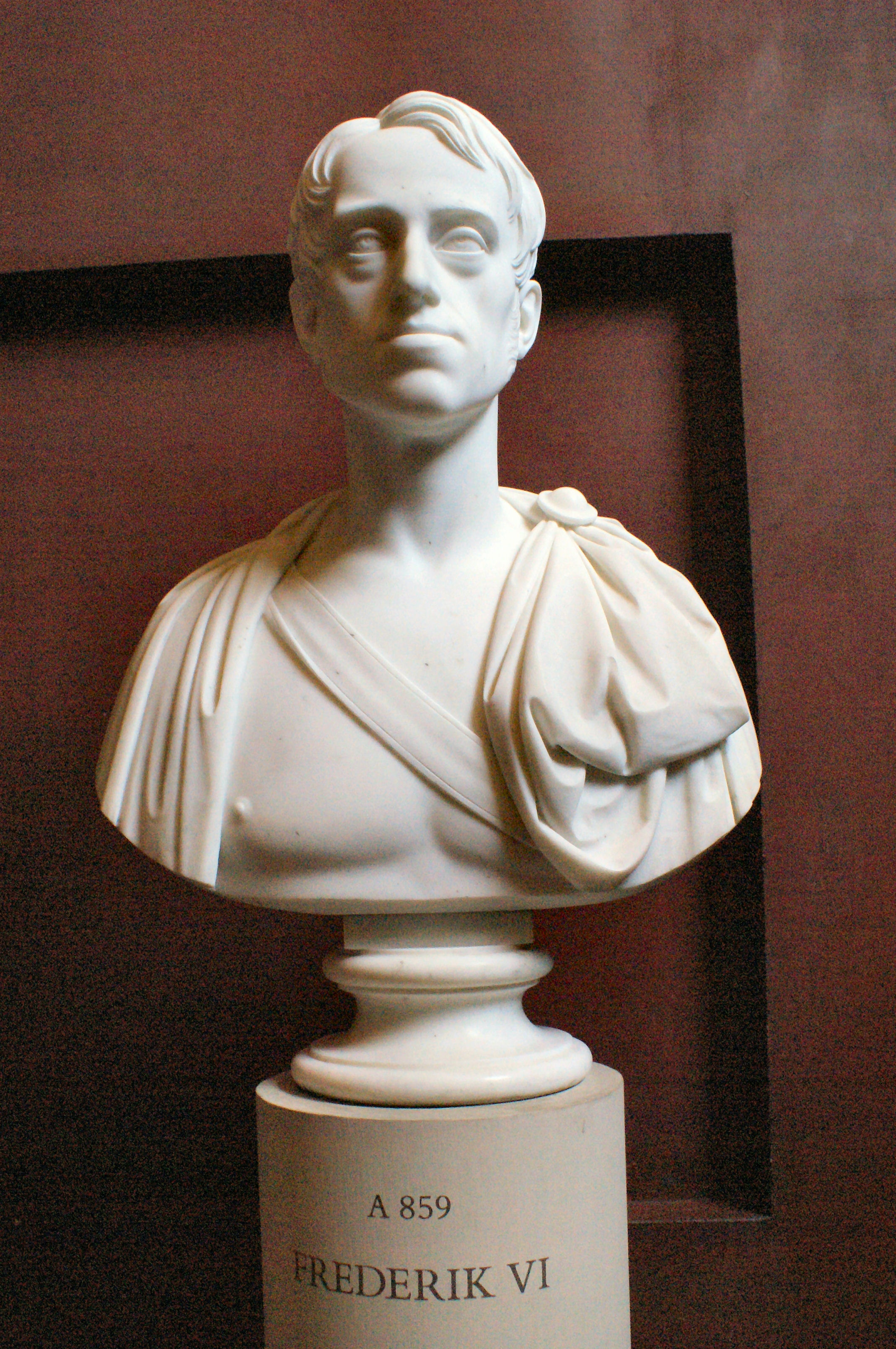 King Frederick VI, by Bertel Thorvaldsen 1819-20, Thorvaldsens Museum